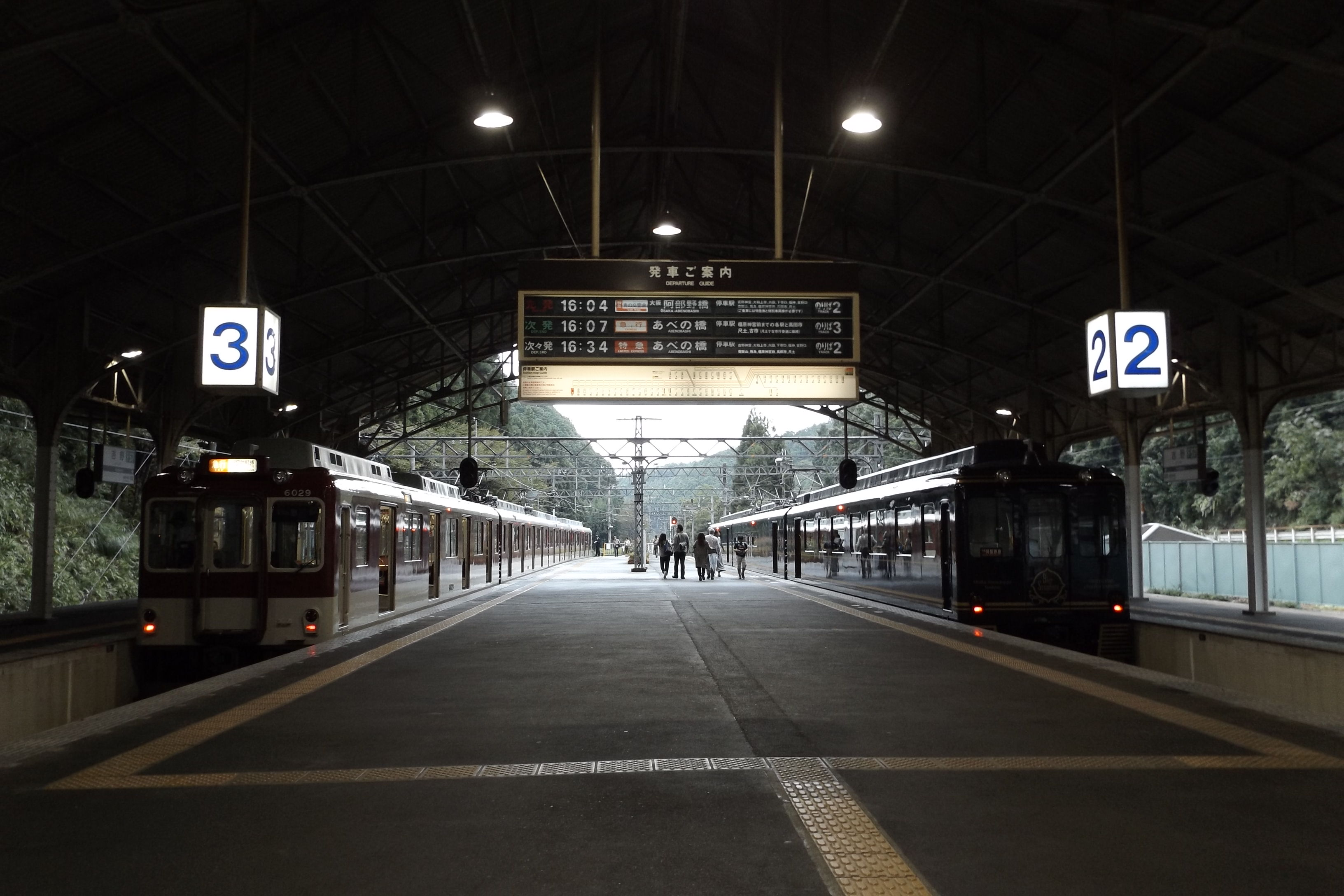 Kintetsu 6000 series (left) and 16200 series (right) EMUs at Yoshino Station in Nara Prefecture, Japan